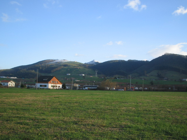 Dobra's or Capia's Peak from Viérnoles (Torrelavega). Mountain of 604 metres, it is the limit between the Cantabrian municipalities of Torrelavega, San Felices de Buelna and Puente Viesgo.